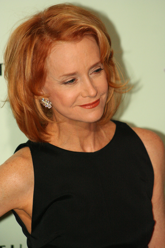 Swoosie Kurtz at the Farm Sanctuary Gala, 2006